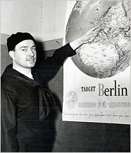 William Patrick Hitler, nephew of Adolf Hitler, in U.S. Navy uniform